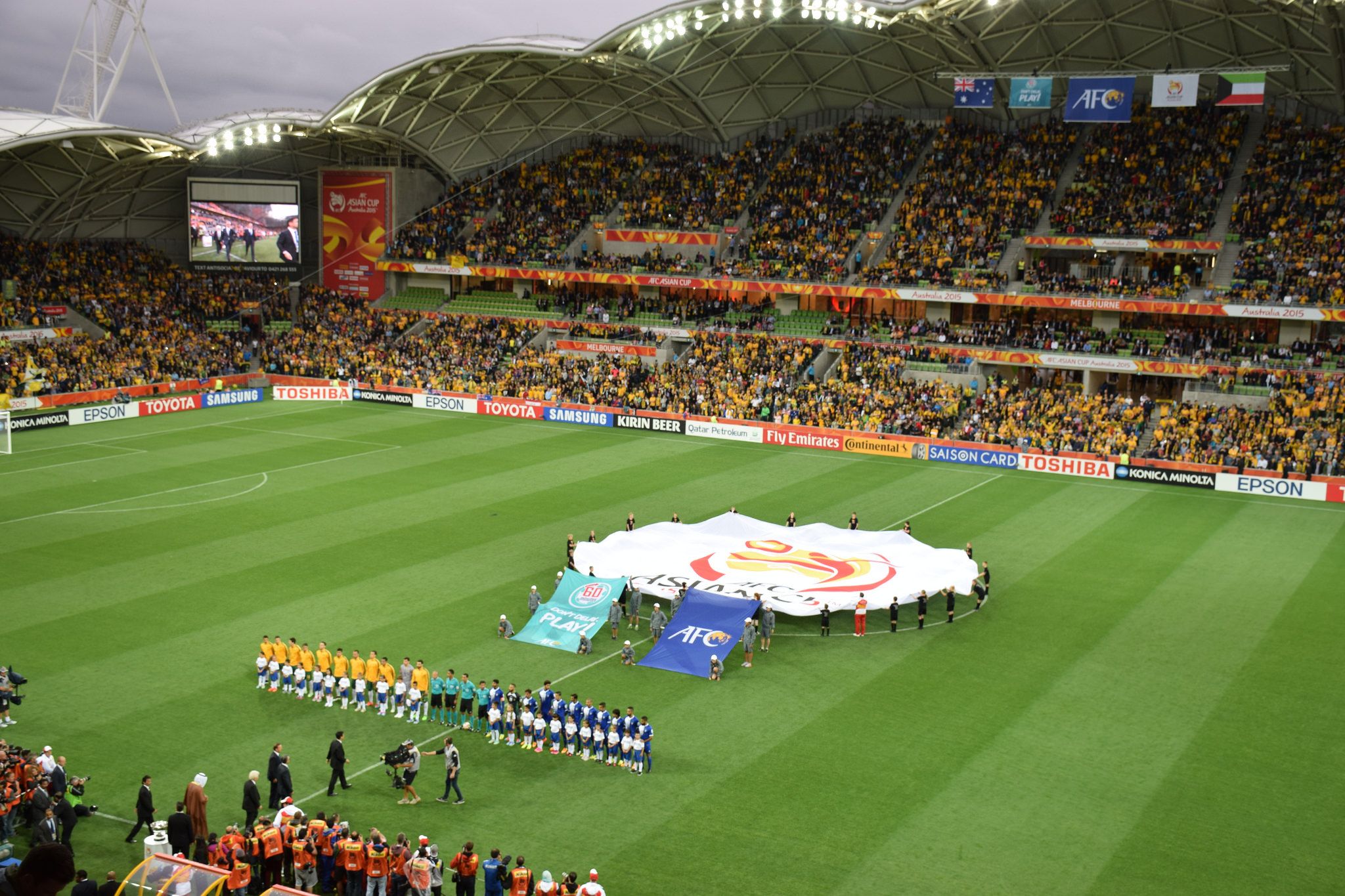 2015 AFC Asian Cup opening match Australia Kuwait, 9 January 2015